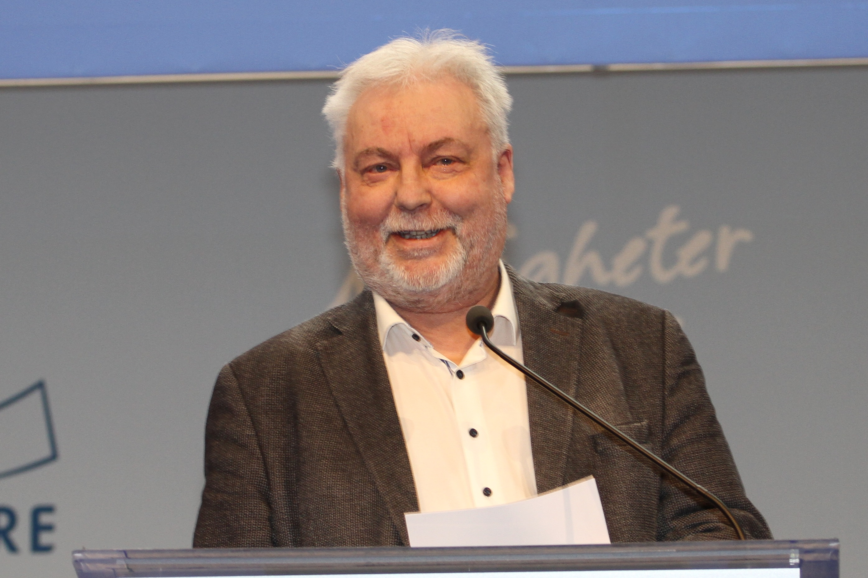 Kai Henning Henriksen